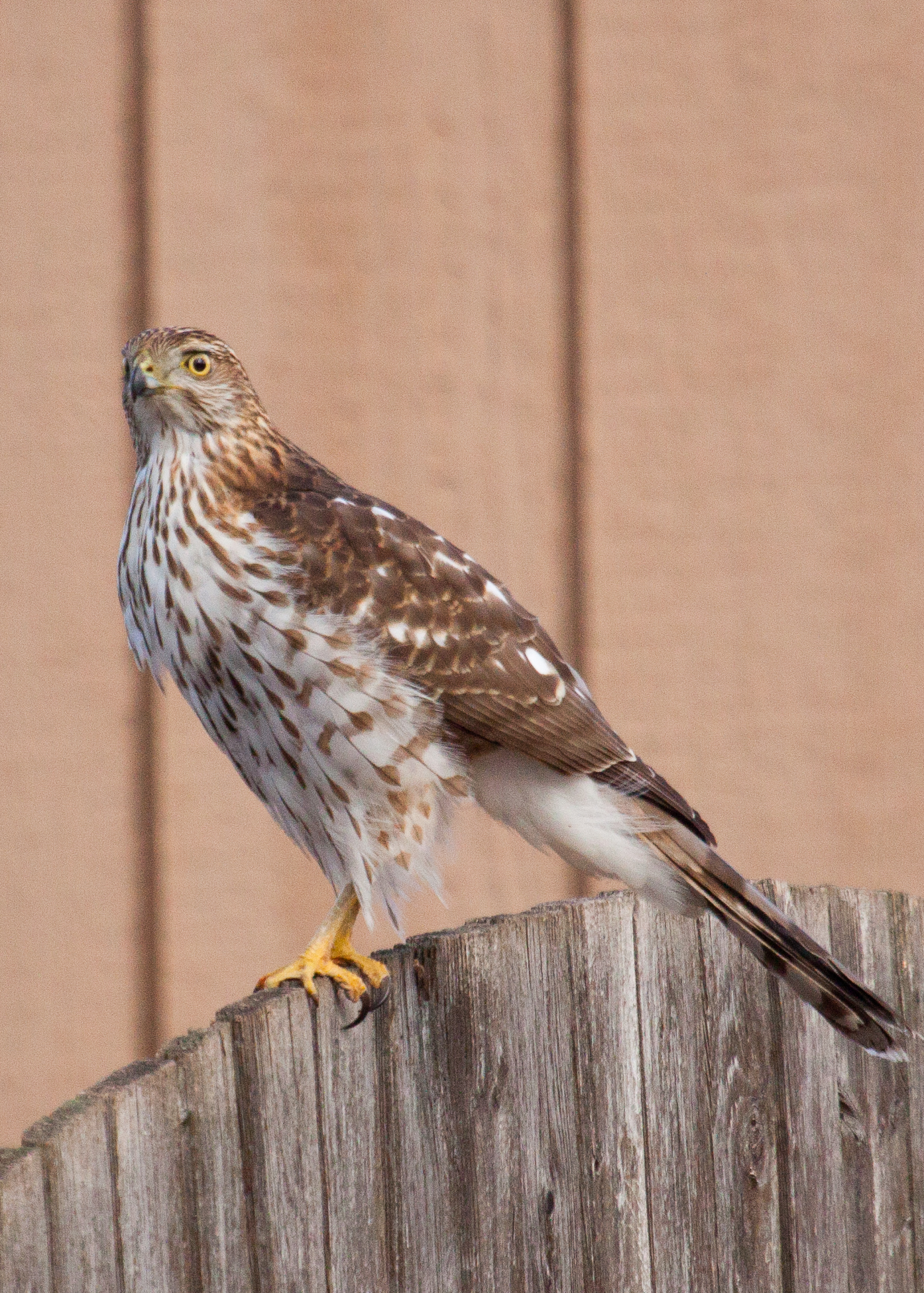 A Coopers Hawk sitting on our neighbours fence in Suburban East Coast America